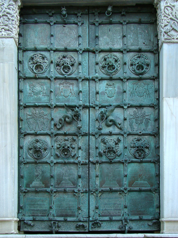 Cathedral of Troia, Apulia, Italy. Bronze portal dating back to 1119.